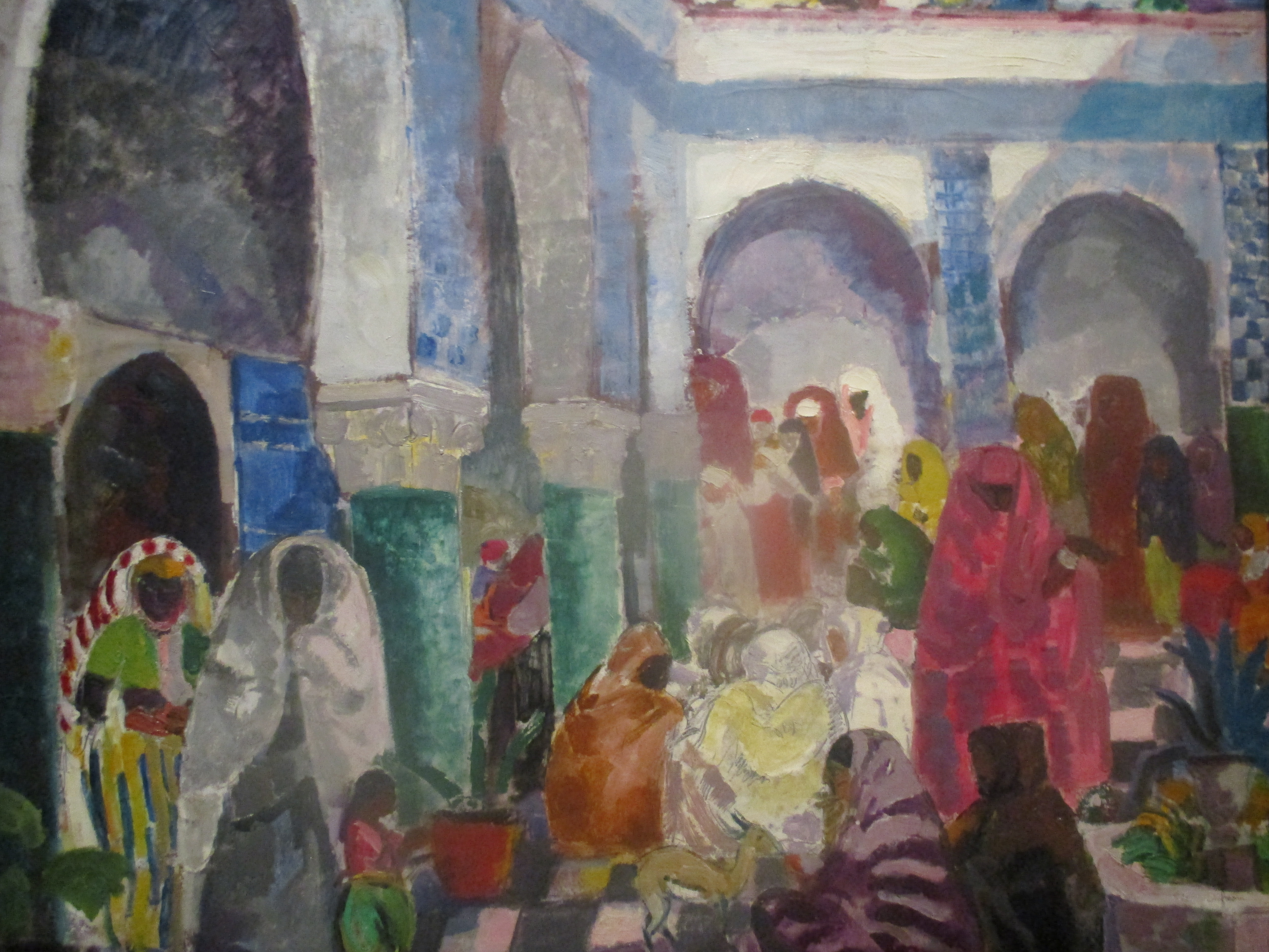 Patio with women in Algiers by Dufresne.